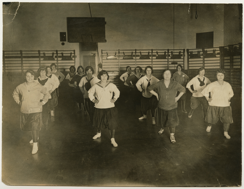 Description: Hartford YWHA, gymnasium class, 1922-1923, Burr School gym Date: 1922-1923 Medium: Photograph Persistent URL: Repository: Parent Collection: National Jewish Welfare Board Records Call Number: I-337 Rights Information: No known copyright restrictions; may be subject to third party rights. For more copyright information, click See more information about this image and others at To inquire about rights and permissions, or if you have a question regarding the collection to which the image belongs, please contact the Reference Department of the American Jewish Historical Society by mailto: . Digital images created by the Gruss Lipper Digital Laboratory at the Center for Jewish History.